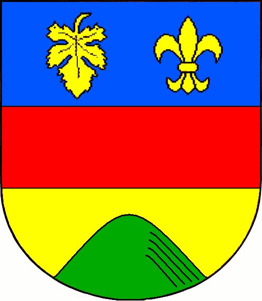 Municipal coat of arms of Medlovice village, Uherské Hradiště District, Czech Republic.